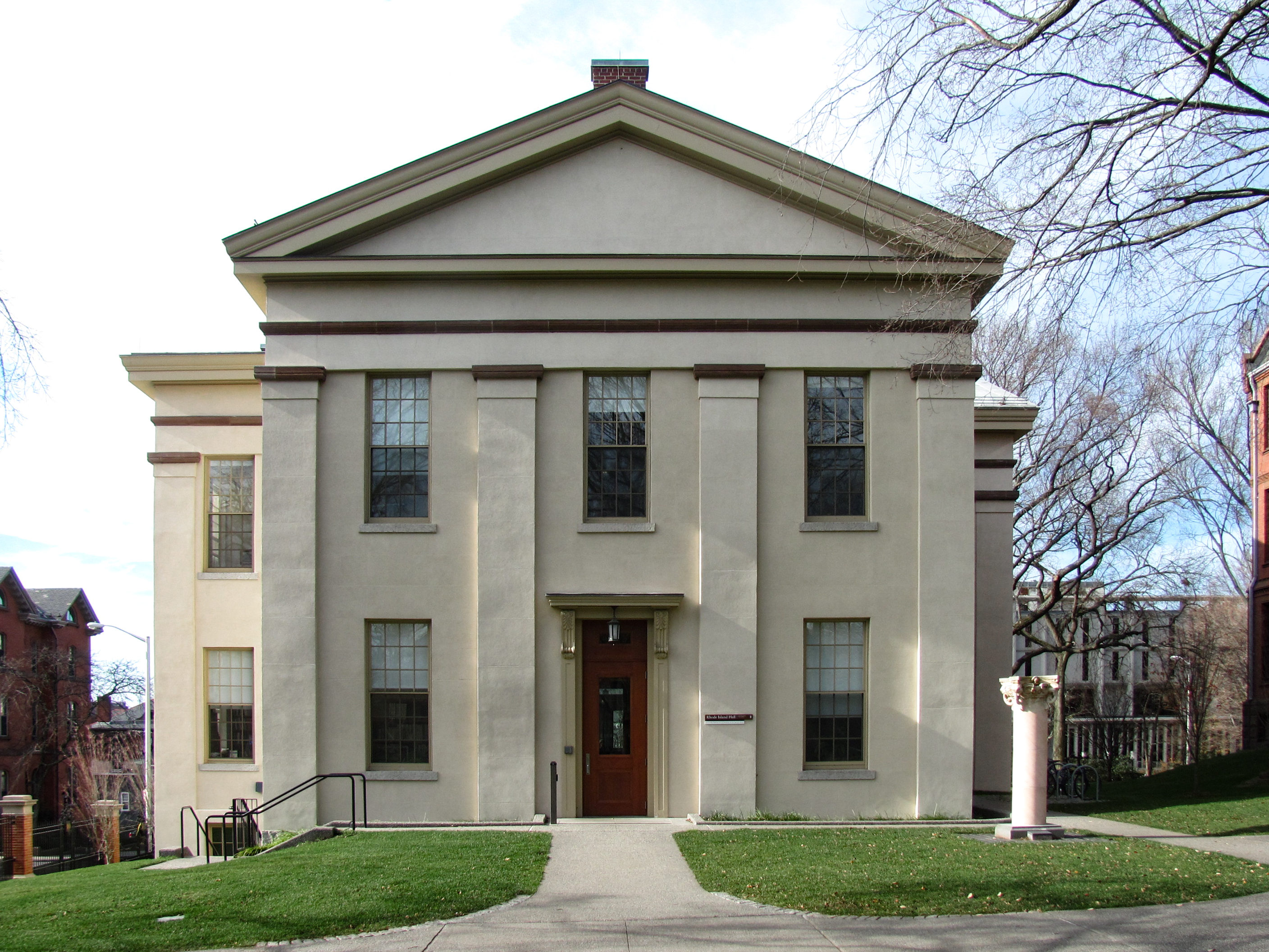 Rhode Island Hall, Brown University, Providence Rhode Island - 2011